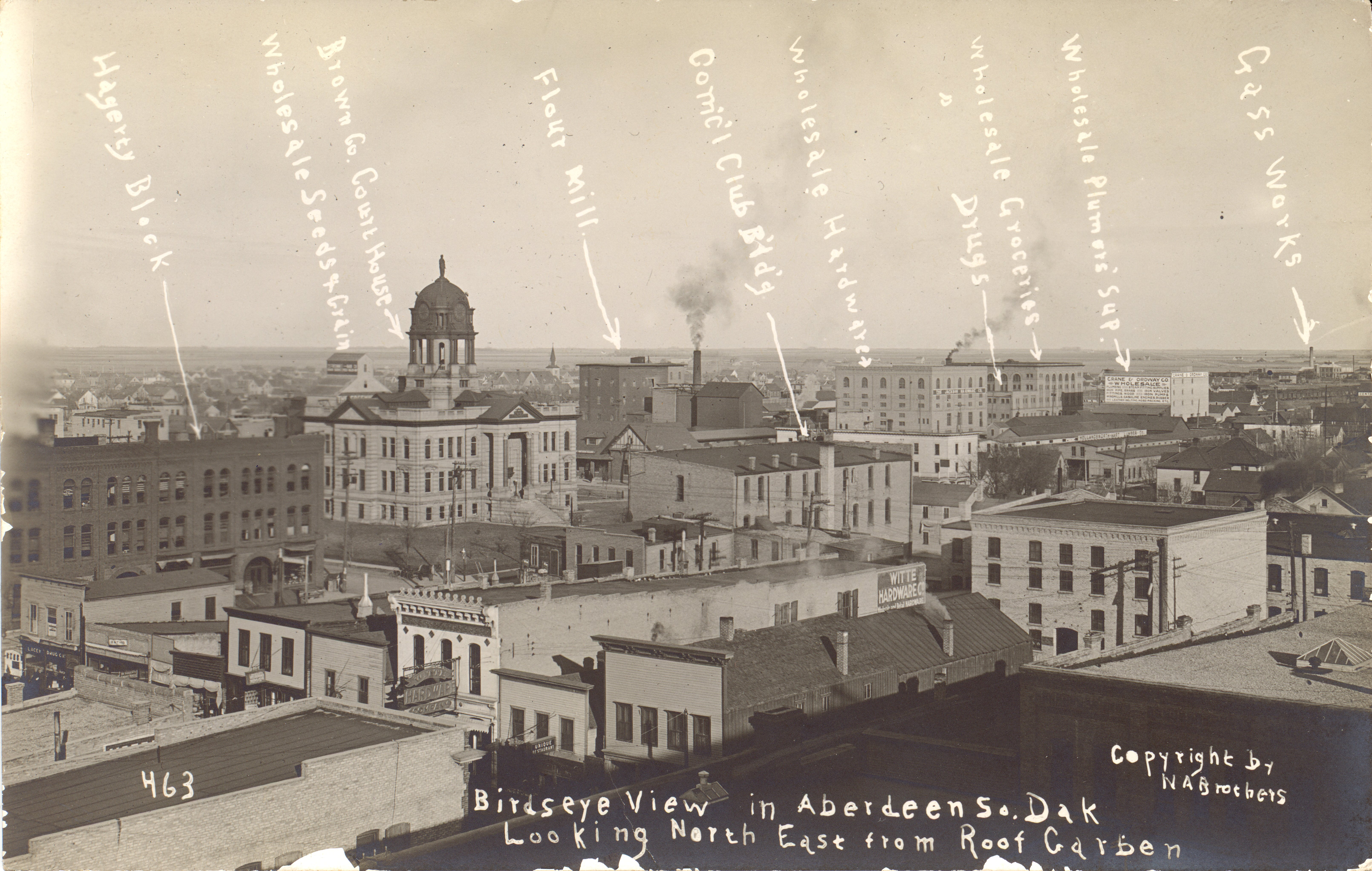 View of downtown Aberdeen, South Dakota in 1910. Looking northeast.